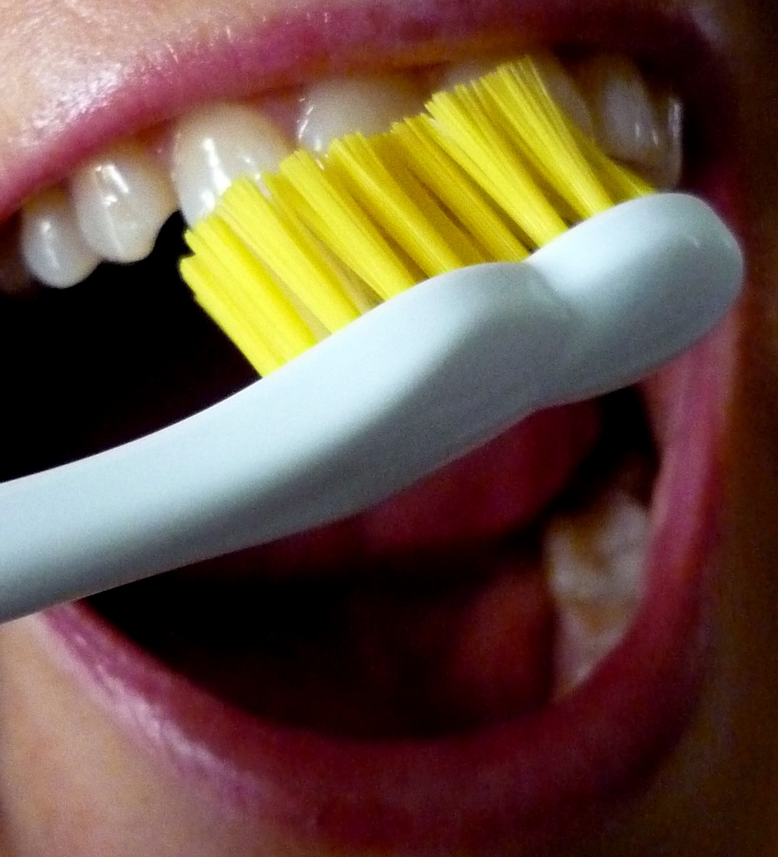 Brushing teeth with a toothbrush.